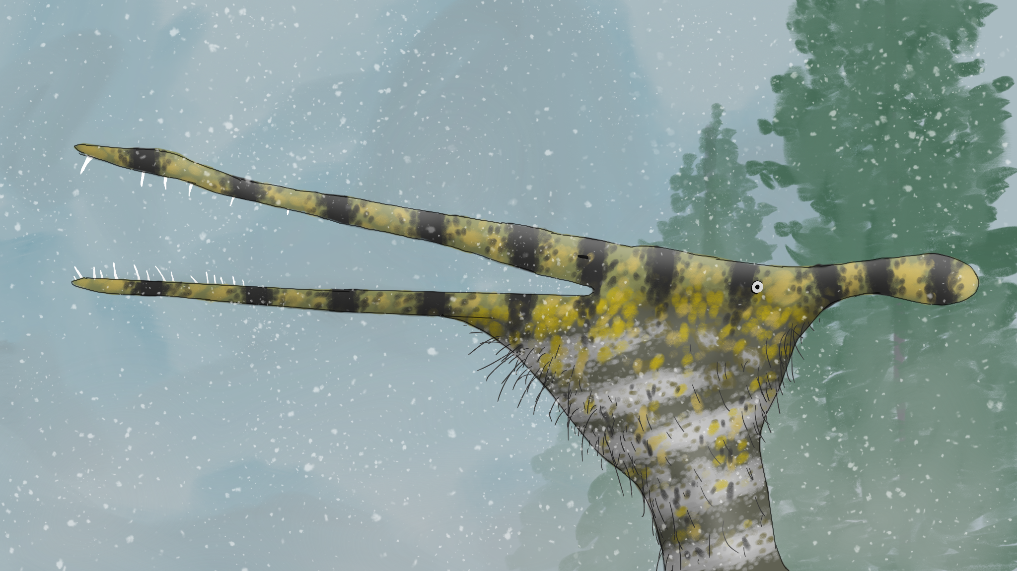 A reconstruction showing the head and neck of Moganopterus.